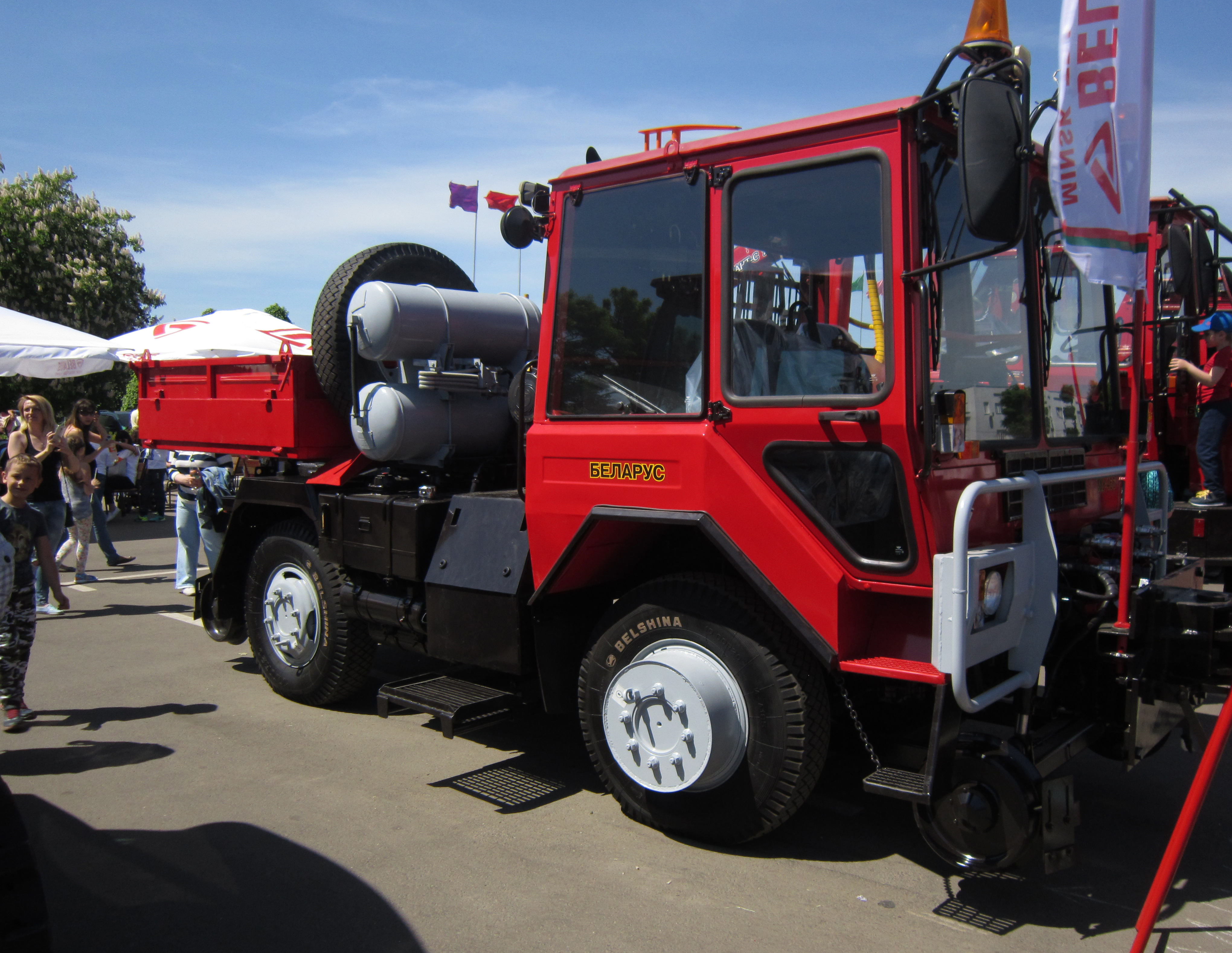 Belarus MU466 (MTZ MU466) road & railroad maintenance vehicle